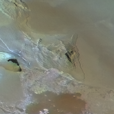 The highest (southern) peak of the Boösaule Montes, which is the highest peak on Io, as imaged by Voyager 1. North is to the upper left. This image was created from PIA00323 by cropping and sharpening. NASA's description of the uncropped image is as follows: The eruption of Pele on Jupiter's moon Io. The volcanic plume rises 300 kilometers above the surface in an umbrella-like shape. The plume fallout covers an area the size of Alaska. The vent is a dark spot just north of the triangular-shaped plateau (right center). To the left, the surface is covered by colorful lava flows rich in sulfur.